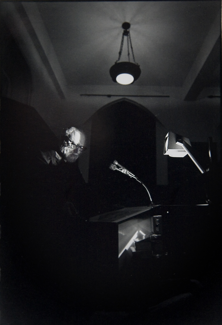 Abdus Salam, professor of theoretical physics at the Imperial College, London and winner of the 1979 Nobel Prize in Physics, lectures at the University of Chicago's Oriental Institute.